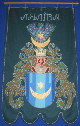 Leliva (coat of arms)